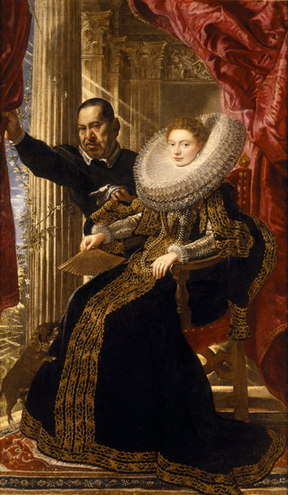 Marchesa Maria Grimaldi, and Her Dwarf by Peter Paul Rubens Date painted: c.1607 Oil on canvas, 241.5 x 139.5 cm Collection: National Trust - Kingston Lacy Estate, Dorset The sitter is elaborately dressed. Her gown is fronted, edged and sleeved with gold braiding, and the cuffs are small white ruffs. Around her neck is a vast cartwheel layered ruff. It is a sumptuous full-length portrait, probably of the marchesa Maria Grimaldi, whose father, Carlo Grimaldi, put his villa at Sampadierna at the disposal of Rubens and his employer, Duke Vincenzo Gonzaga I of Mantua, in 1607. She is accompanied by a dwarf and her dog, who has the letters A. M. inscribed on its collar. The dwarf pulls aside a curtain to reveal a grand architectural setting composed of a colonnade of Corinthian pillars; the foremost pillar is entwined with flowers coming from the formal garden to the left. About sitter read also